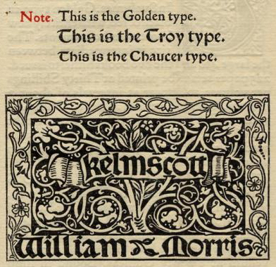 Detail of typeface samples of Chaucer, Troy, and Golden Type designed by William Morris, and Kelmscott Press logotype, 1897